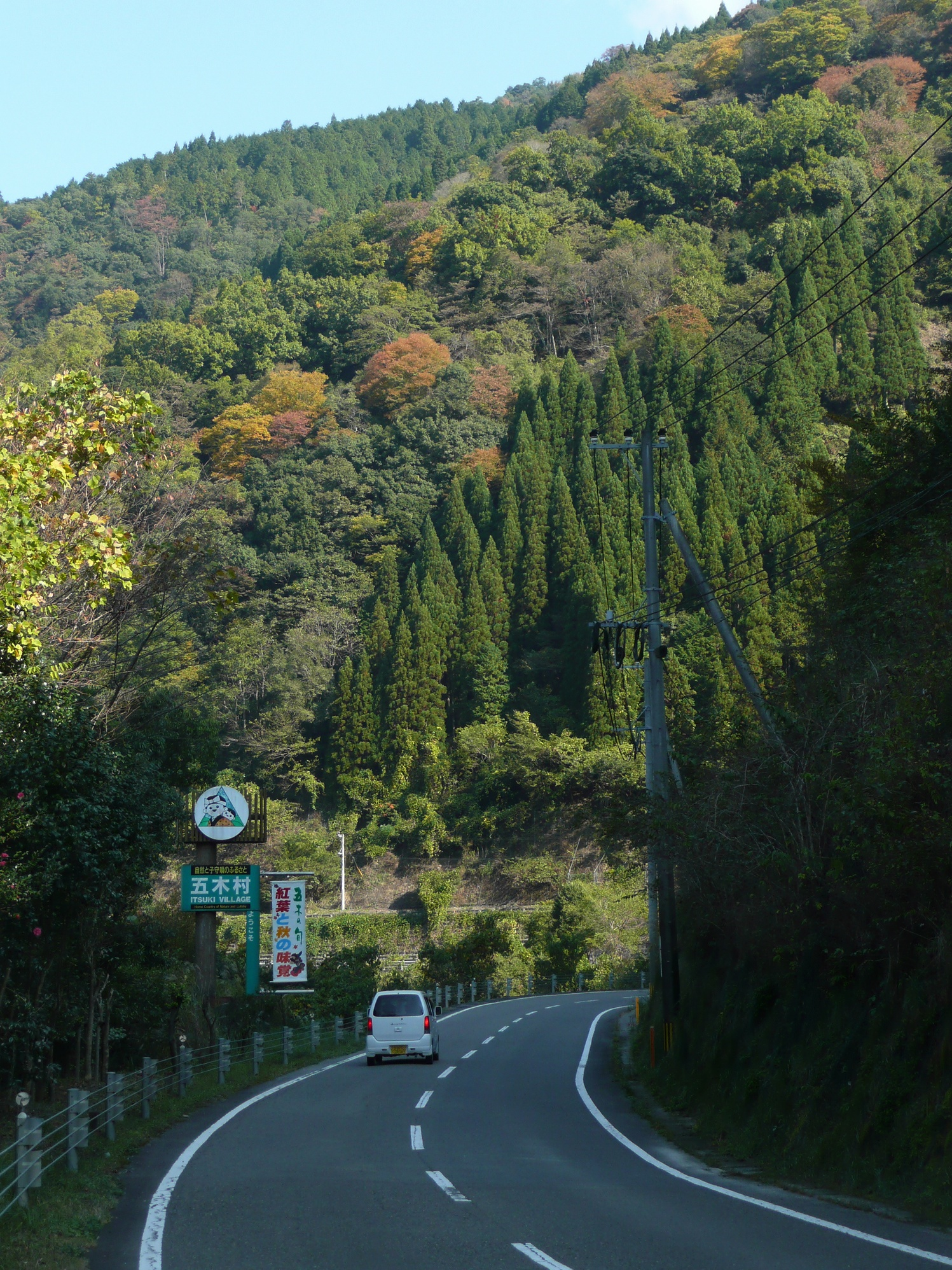 National Route 445 (Itsuki Village, Kumamoto Prefecture, Japan.